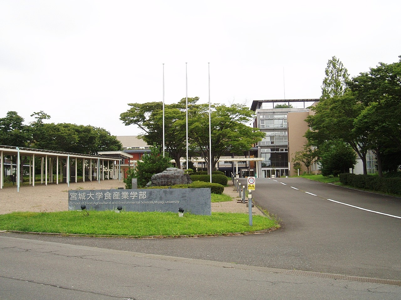 Main entrance to Taihaku Campus, Miyagi University, located in Taihaku-ku, Sendai, Miyagi, Japan.